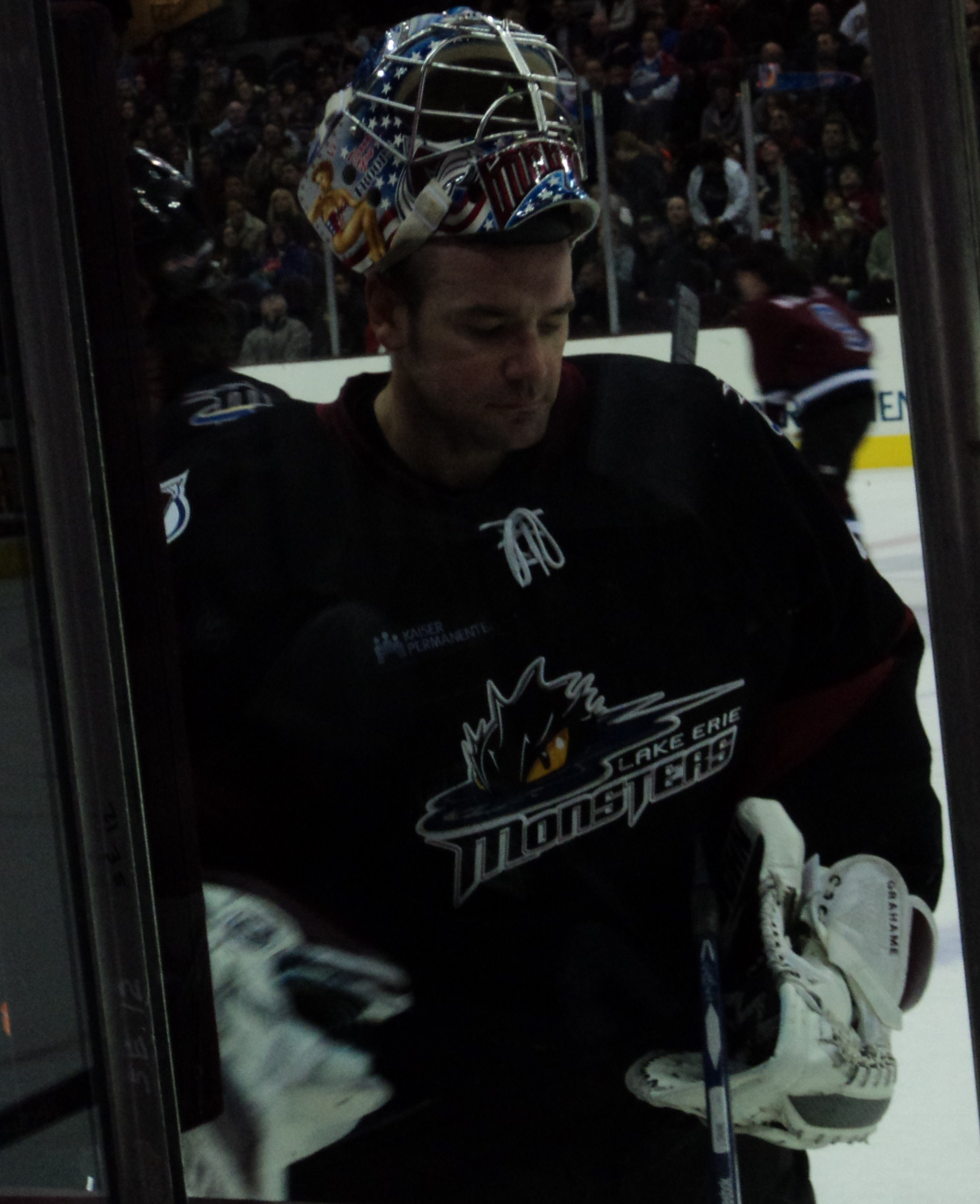 Goaltender John Grahame during his tenure with the Lake Erie Monsters.